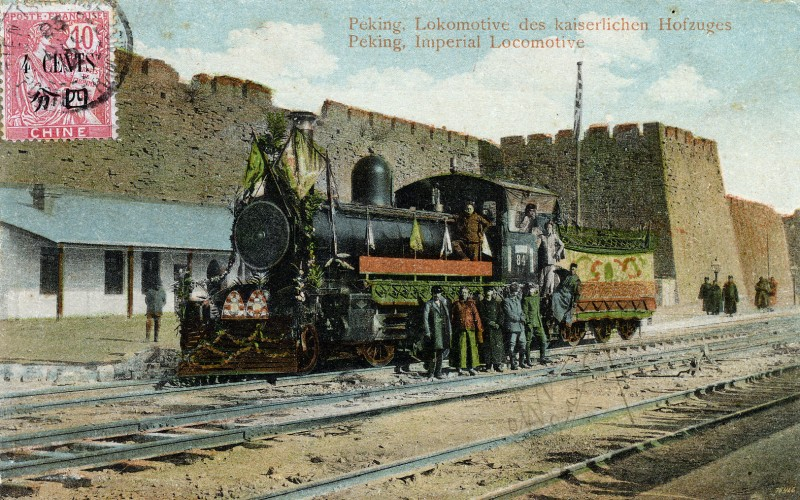 train near Zhengyangmen